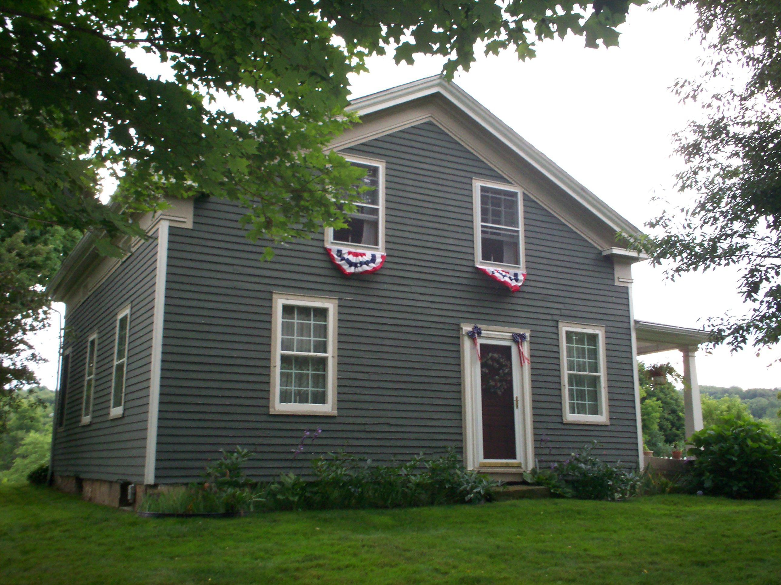 Picture of the historic Oliver and Rosetta Snow home in Mantua, Ohio. It is the home where early Mormon (Latter-day Saint) leaders Lorenzo Snow and his sister Eliza R. Snow spent most of their childhoods.